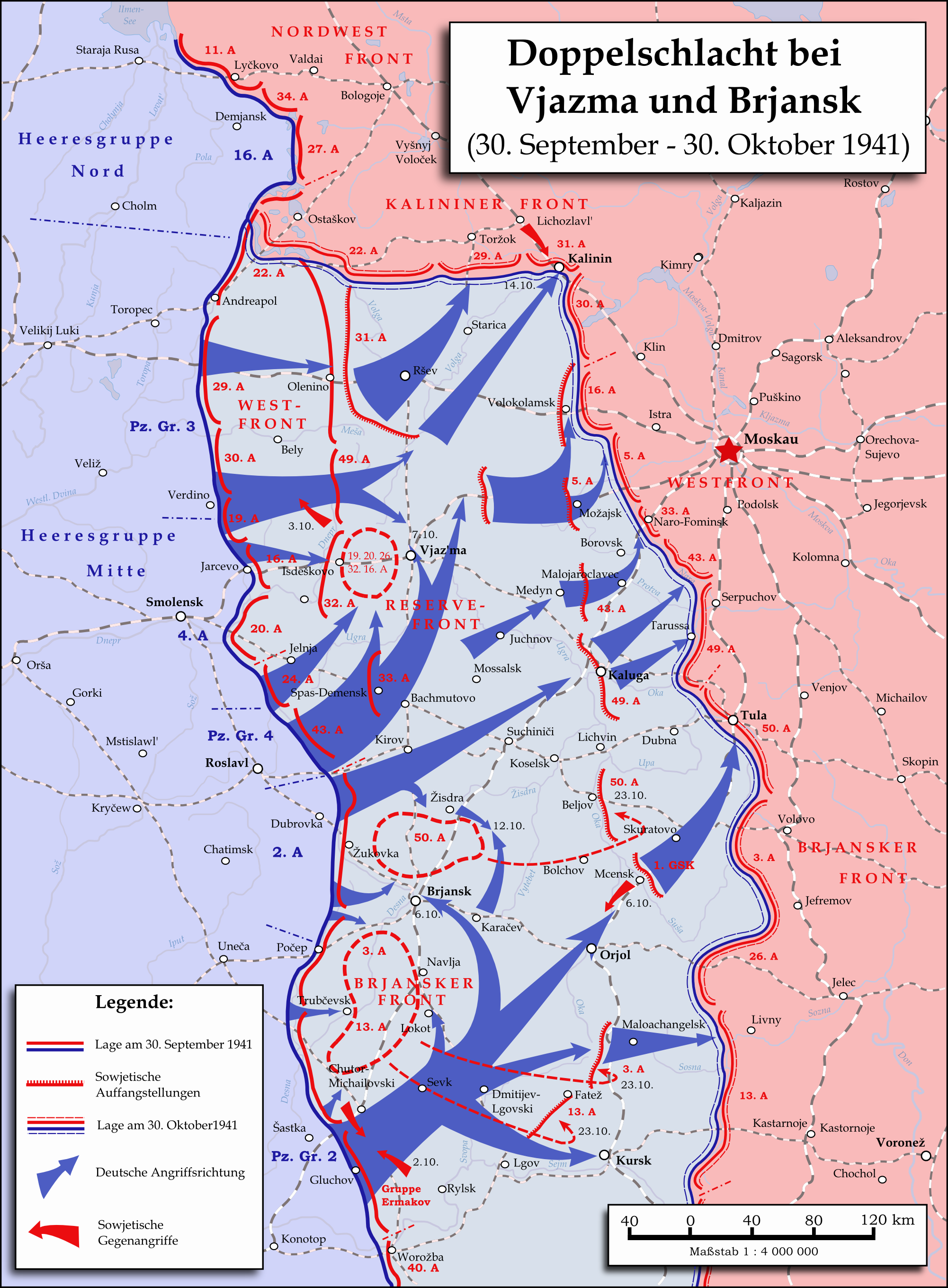 Map showing the Twin-Battlea near Vyazma (October 2nd — October 20th 1941) and Brjansk (September 30th - Octpber, 23rd) during the Second World War (1939—1945) at the Eastern Front. The map is created by Inkscape and is based on the Map 30 in the attachement of the book P.N. Pospelow (Hrsg.): Geschichte des Großen Vaterländischen Krieges der Sowjetunion, Bd.2, Berlin (Ost) 1963. The troop movements have been corrected.